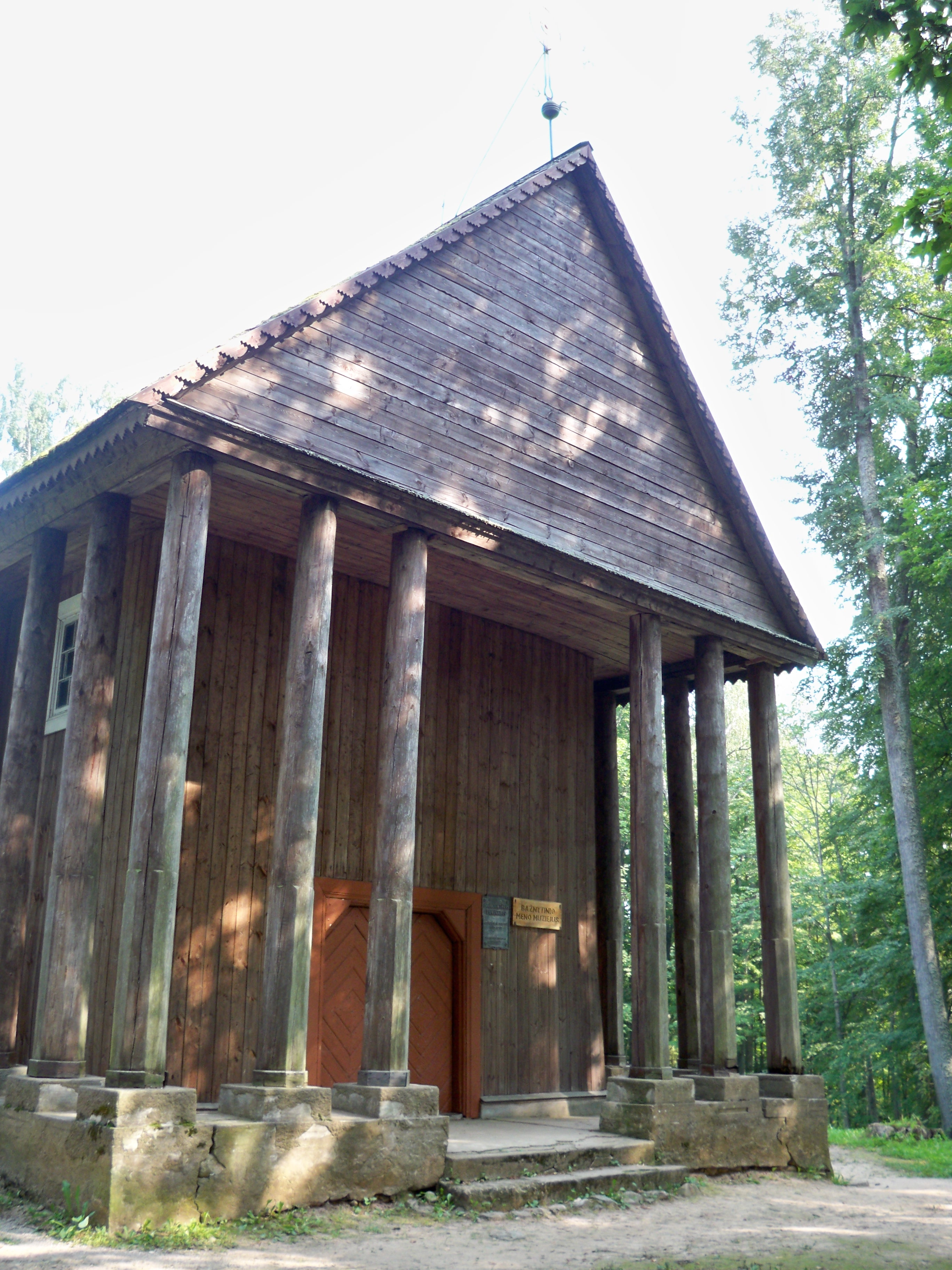 Stelmužė church: front